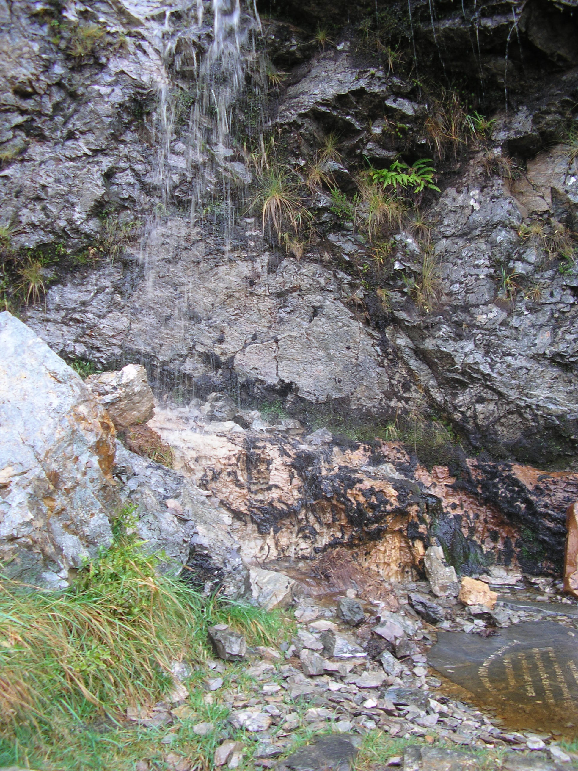 Moine Thrust fault at Knockan Crag, Assynt, Scotland